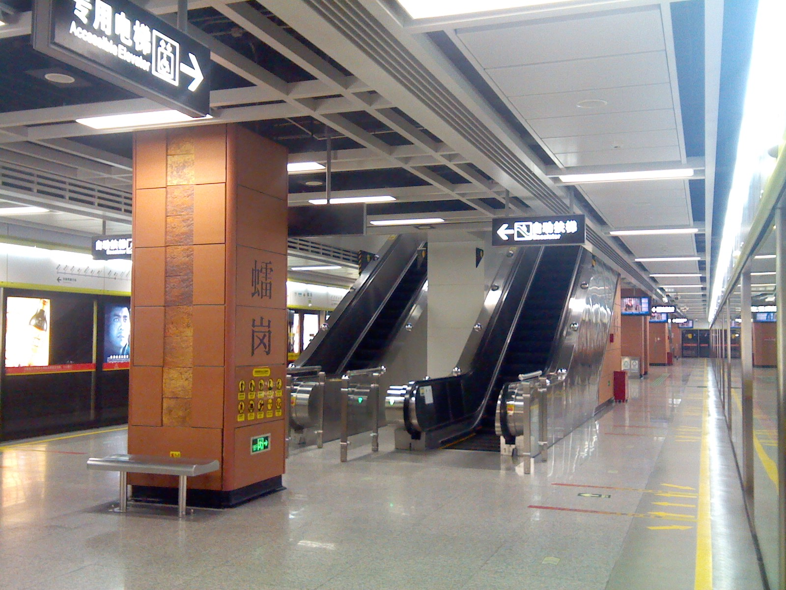 车站月台（西朗方向）